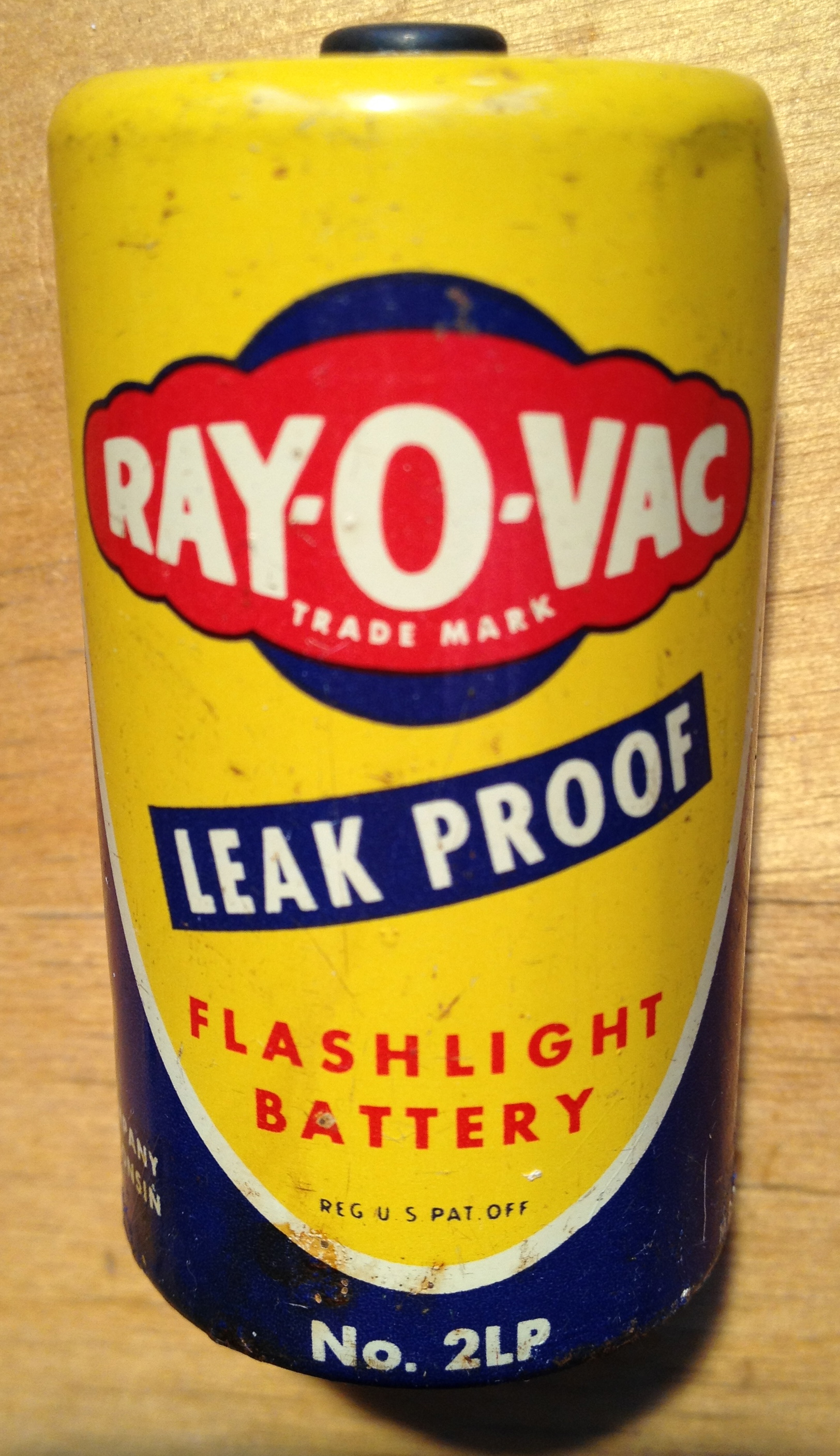 Rayovac D cell flashlight battery, mid-20th century.